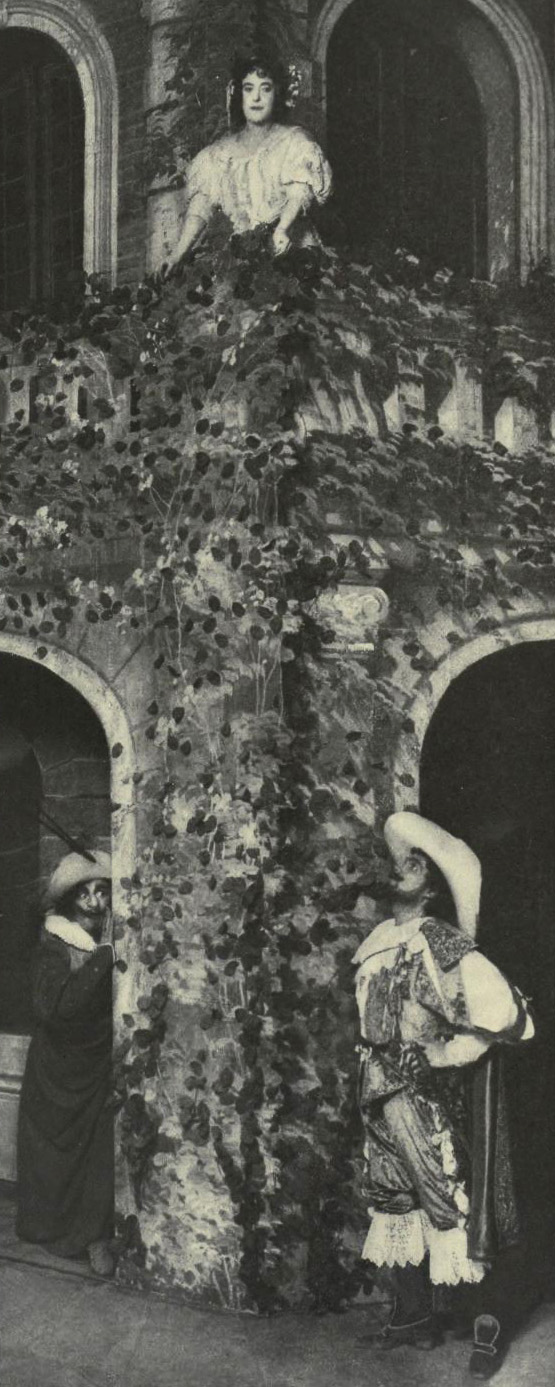 Illustration from Theatre Magazine of Walter Damrosch's opera Cyrano showing a scene from Act 3. Left to right are Pasquale Amato (Cyrano) and Frances Alda (Roxane) and Riccardo Martin (Christian).